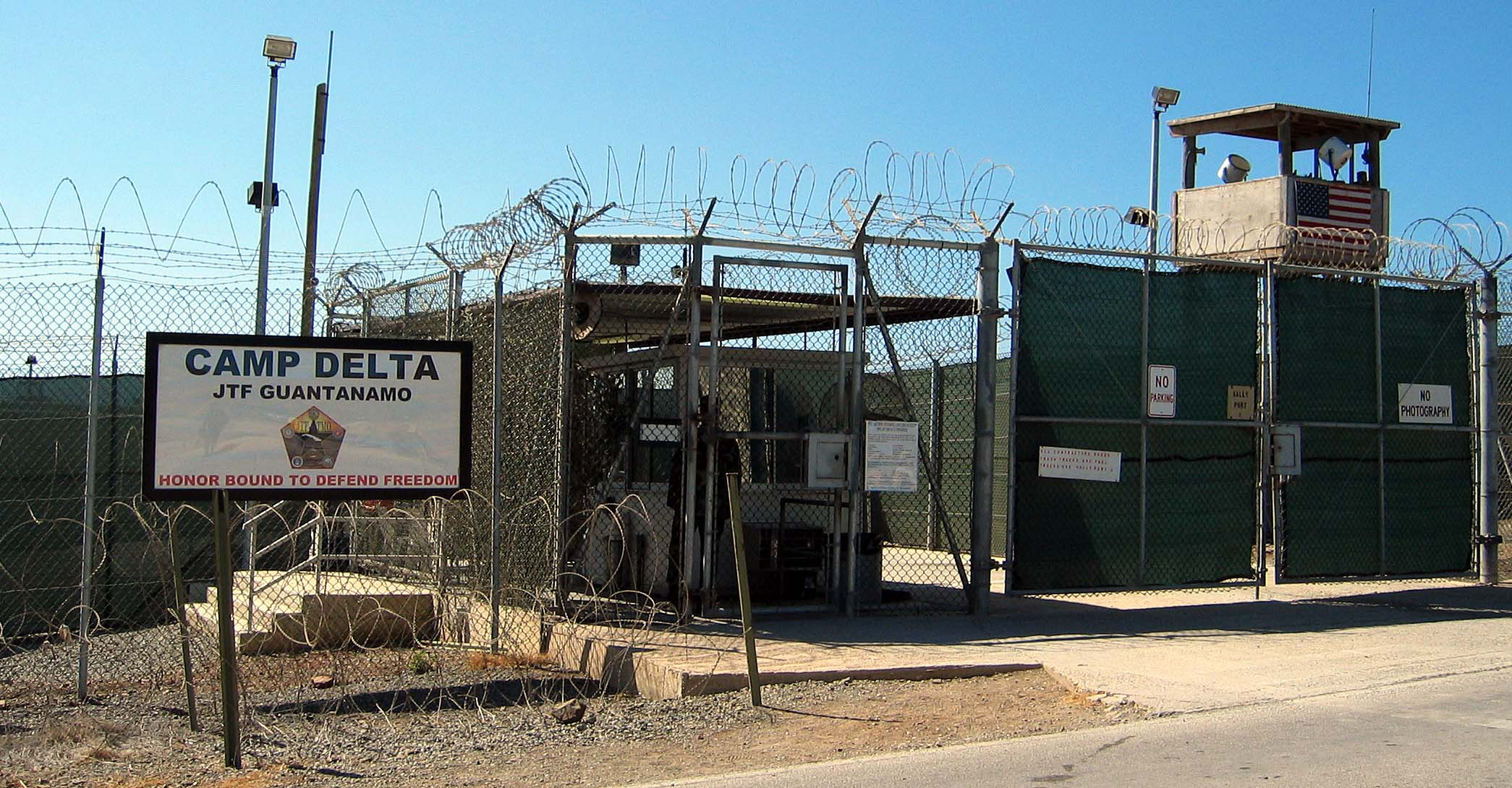 The entrance to Camp 1 in Guantanamo Bay's Camp Delta. The base's detention camps are numbered based on the order in which they were built, not their order of precedence or level of security. Photo by Kathleen T. Rhem